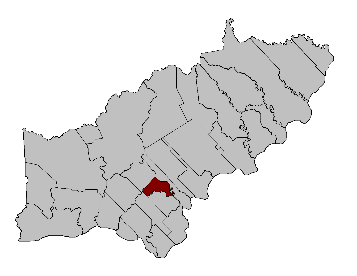 Blank map of Itapúa Department, Paraguay. Administrative divisions of this department.